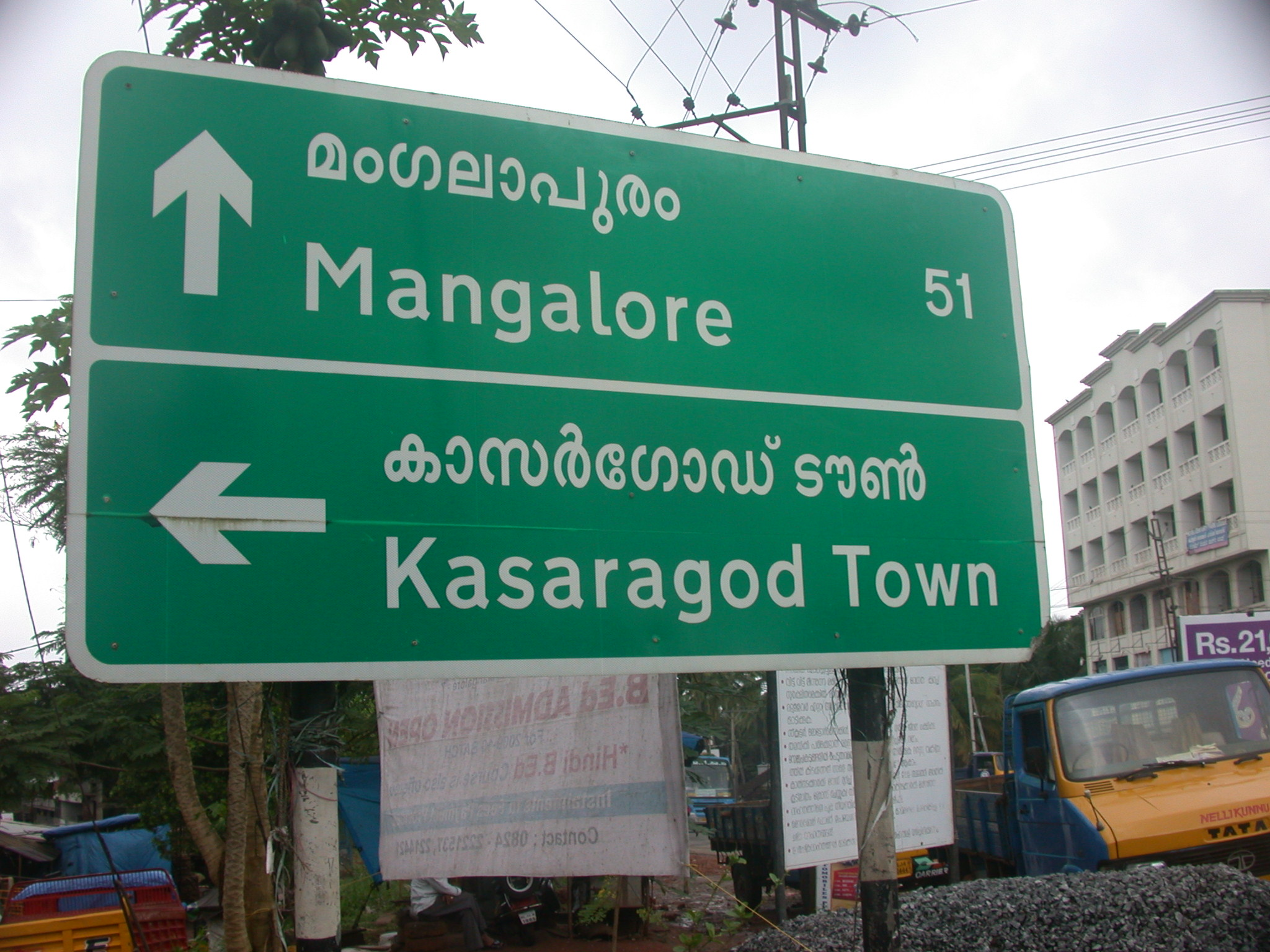 A Malayalam-English signboard at Kasaragod town.